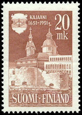 Postage stamp celebrating 300th anniversary of the city of Kajaani, Finland.